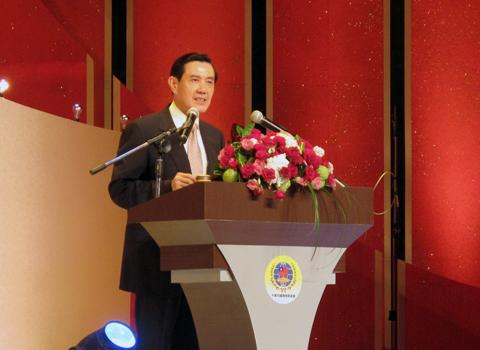 President Ma Ying-jeou gave a speech at 2010 Double Ten Day celebration of Overseas Community Affairs Council, Republic of China.